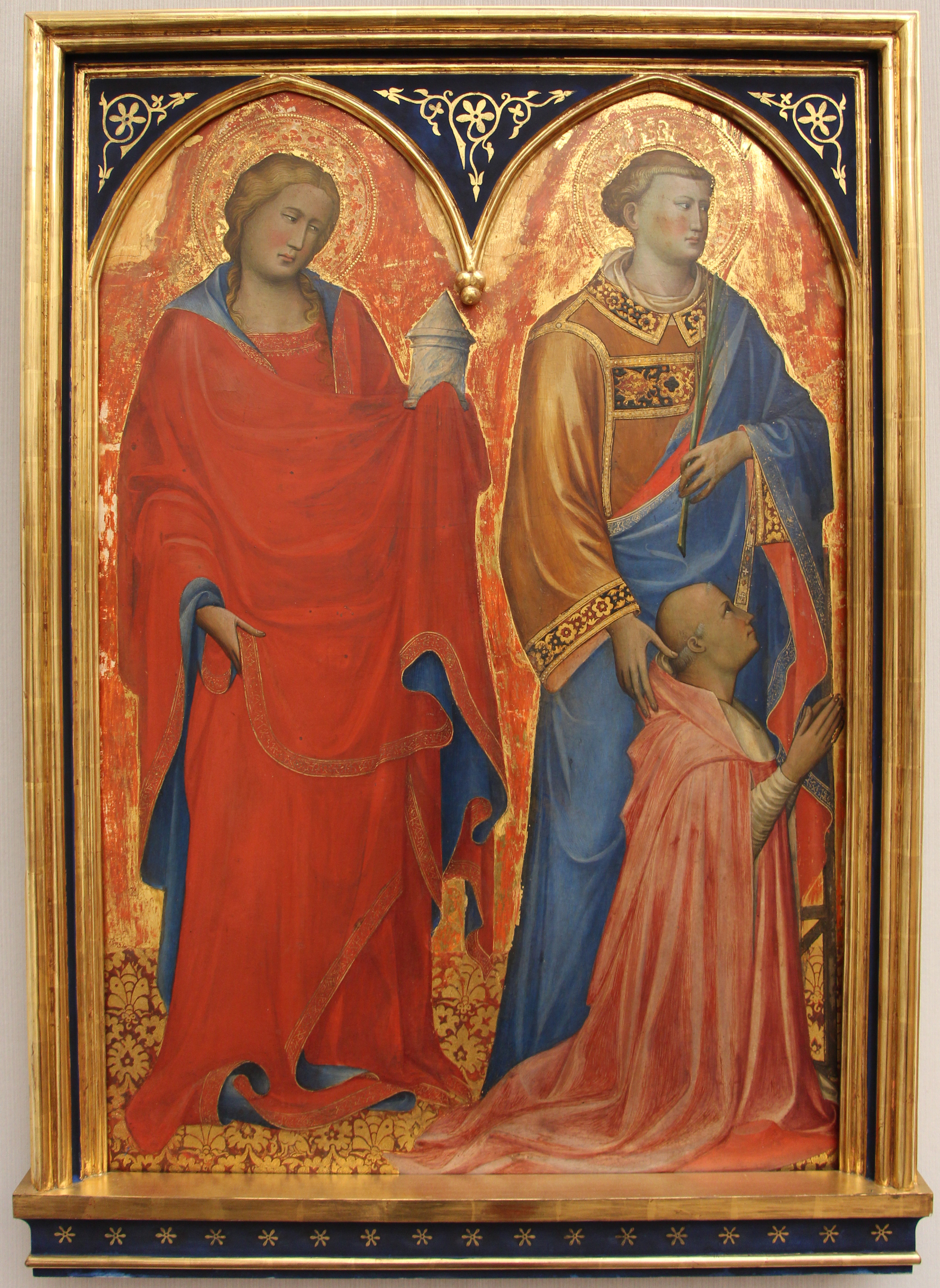 Italian Renaissance paintings in the Gemäldegalerie, Berlin